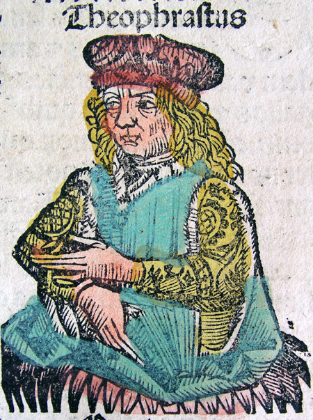 Ancient Greek philosopher Theophrastus, depicted in the Nuremberg Chronicle